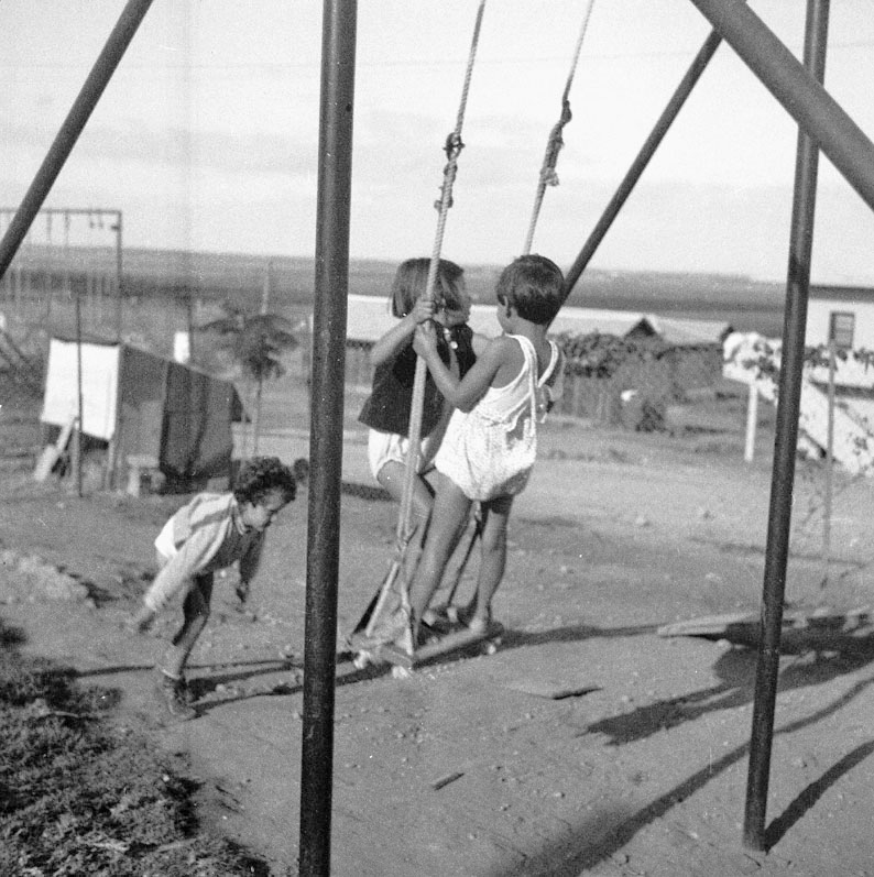 Givat Brenner Children Education, Education in Israel